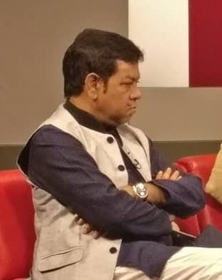 Nader_choudhury_2018